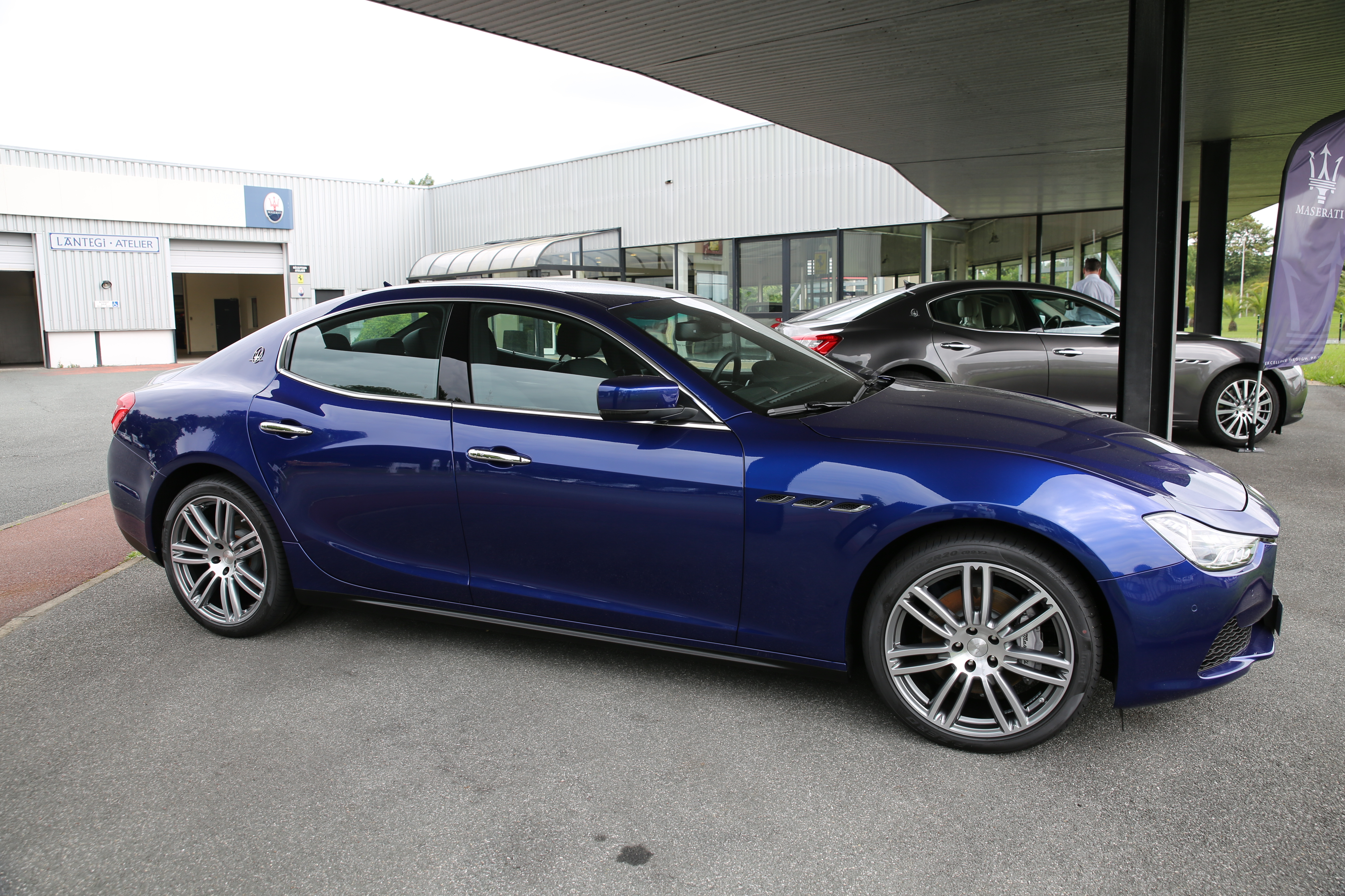 Maserati Ghibli III, Anglet